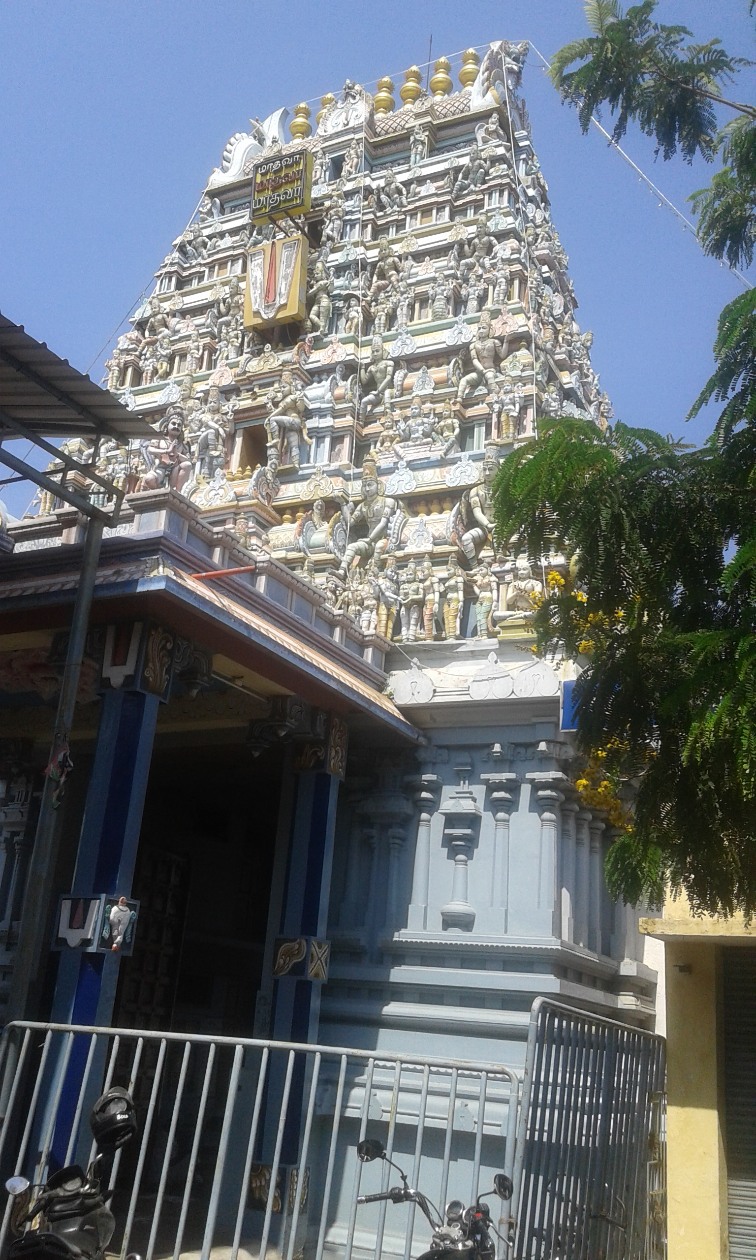 Madhavaperumal temple, Chennai